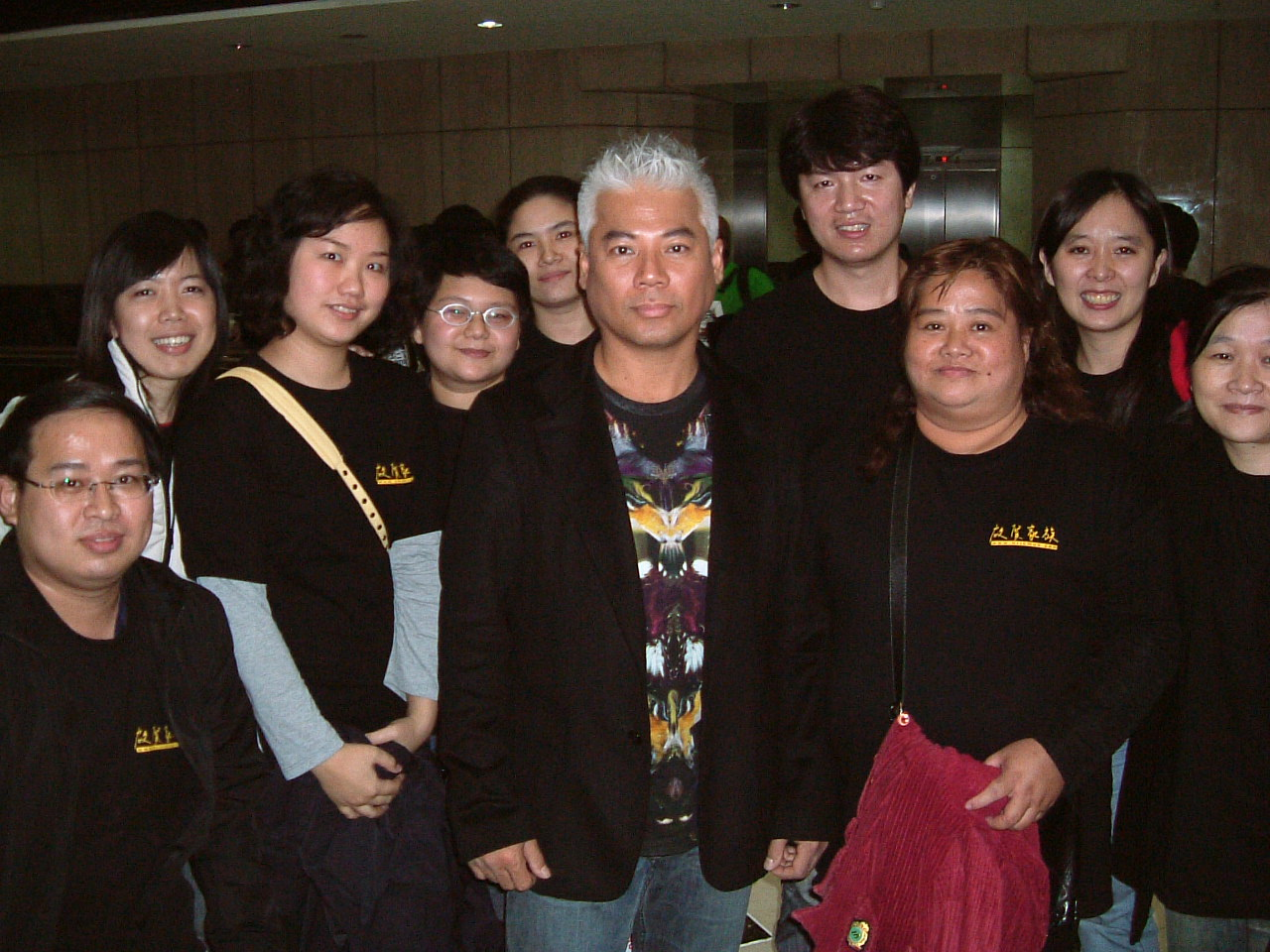 Eric Moo (Chinese: 巫啟賢) and his fans "Eric Moo Family" in a television station after the end of the game show.